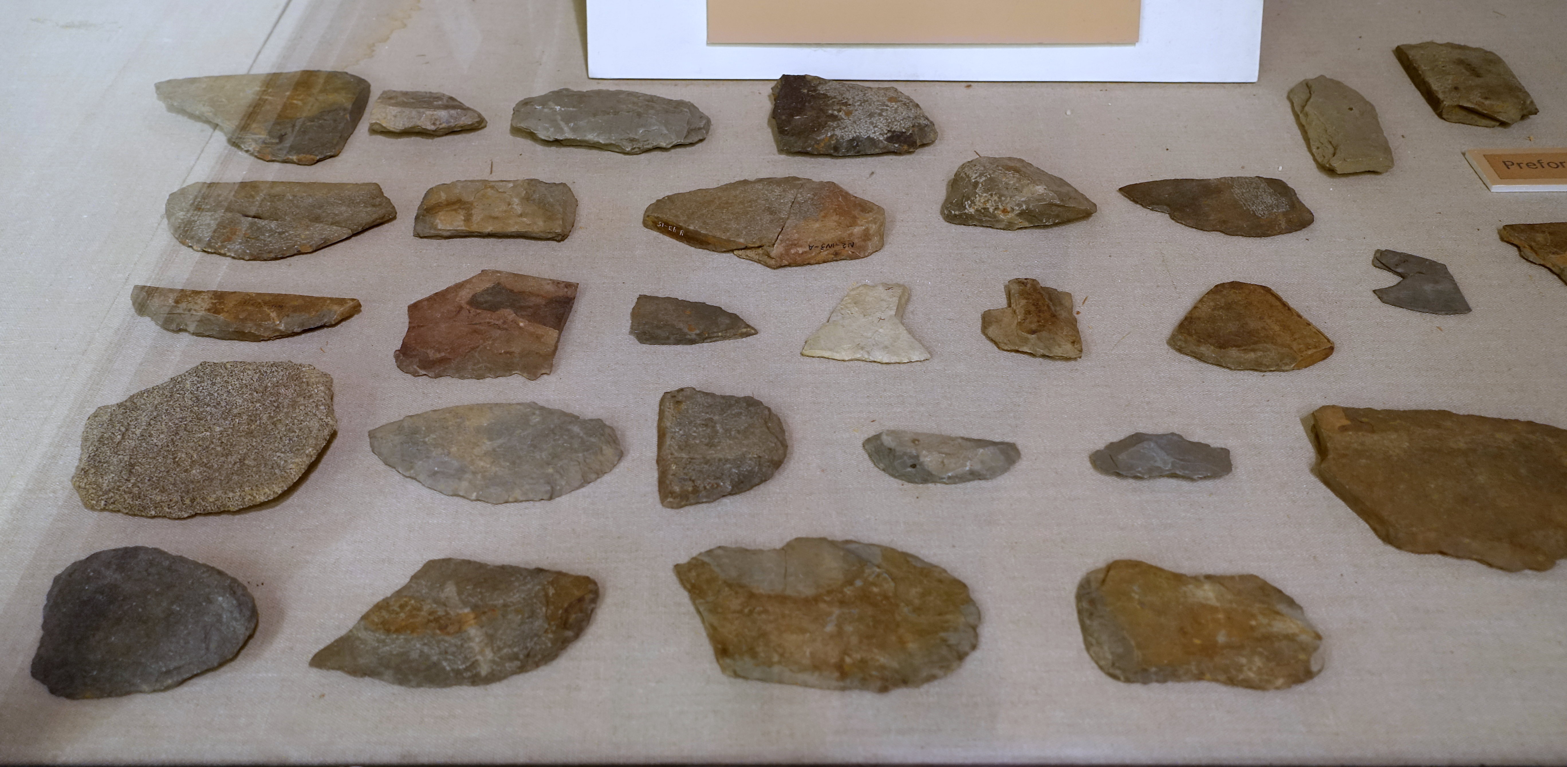 Archaeological exhibit in the Robbins Museum, 17 Jackson Street, Middleborough, Massachusetts, USA.